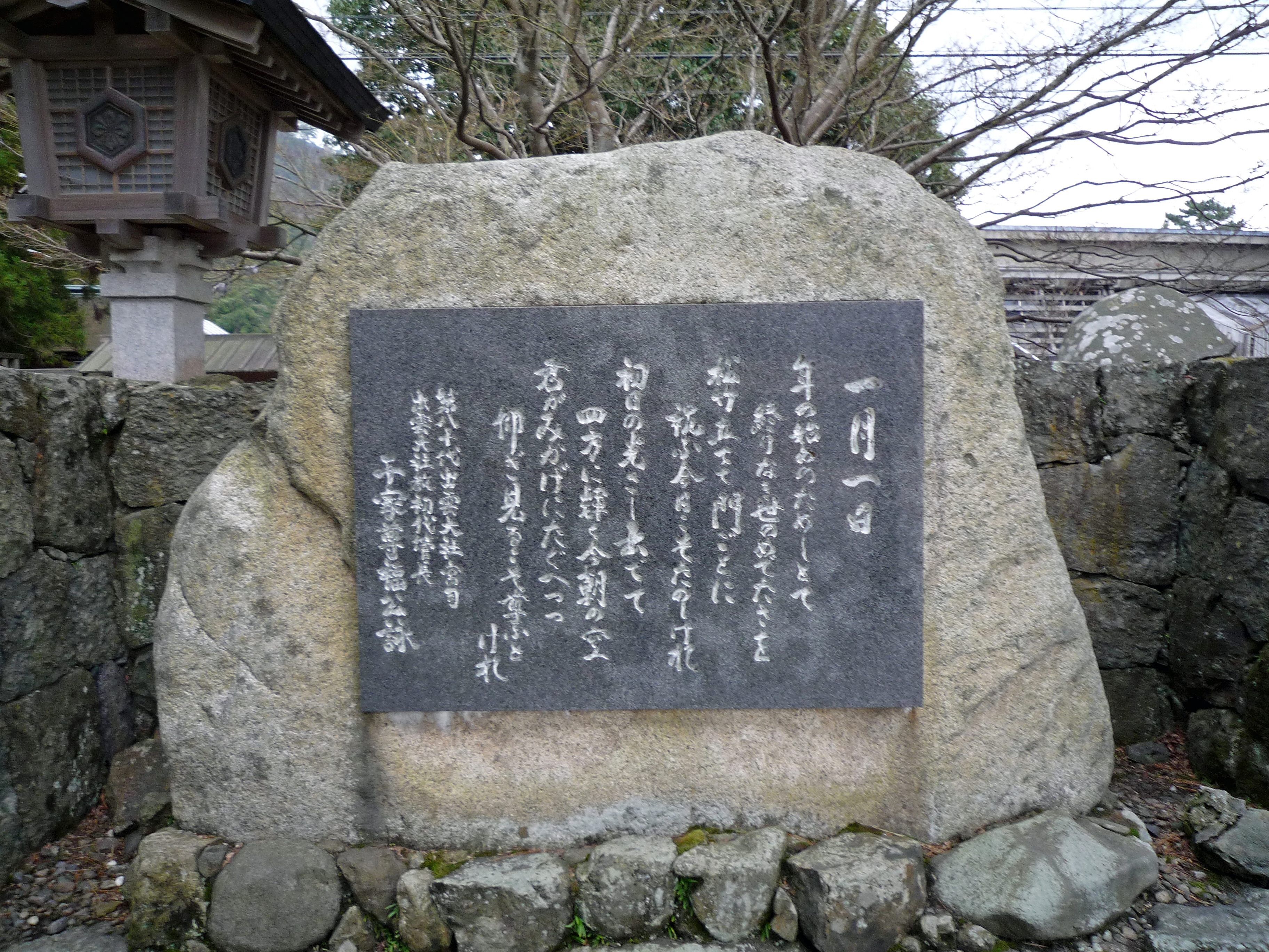 Song Monument of "Ichigatsu Ichijitsu" at Izumo-taisha, Izumo City, Shimane Prefecture.